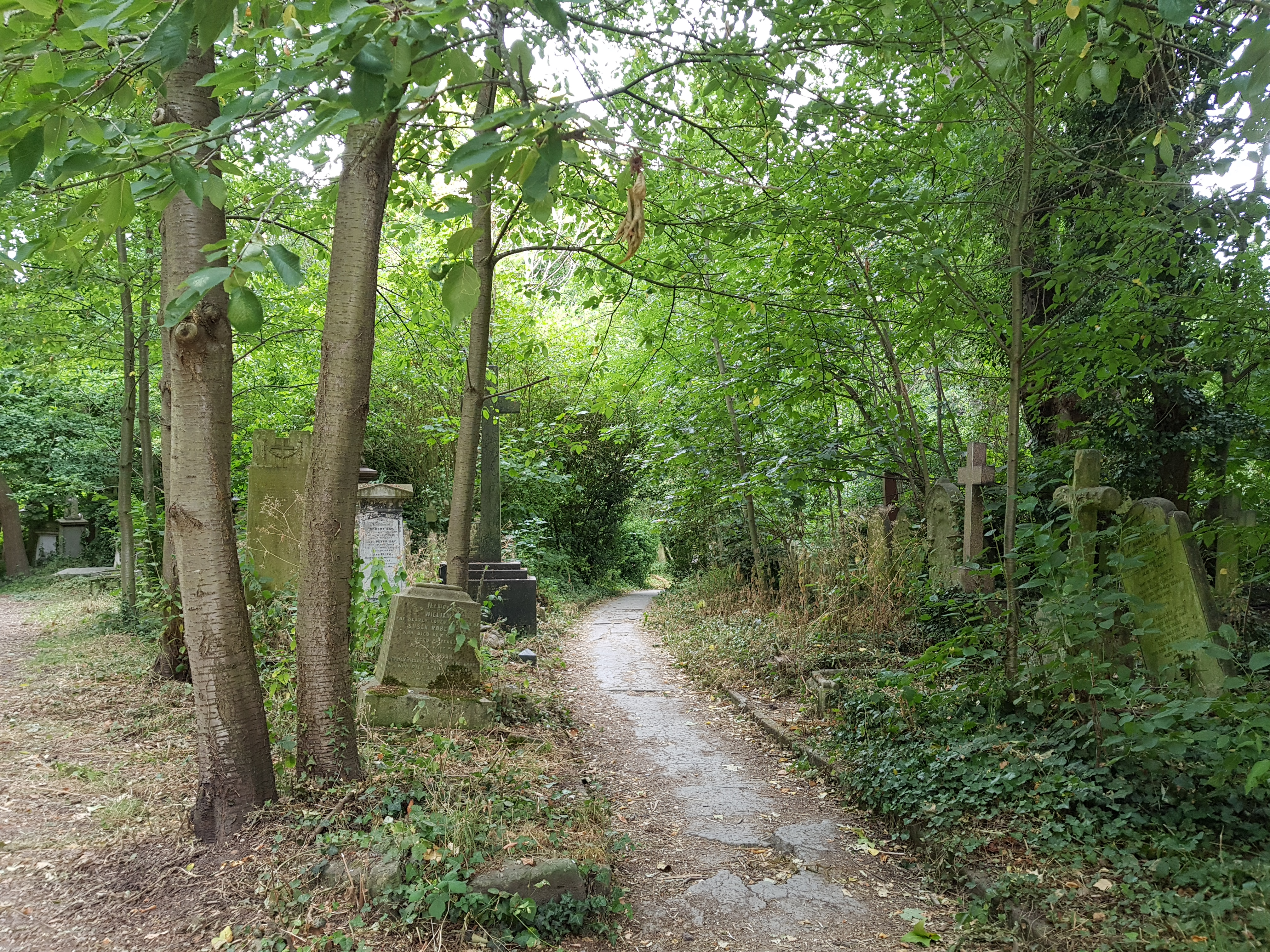 Abney Park Cemetery, Stoke Newington, London